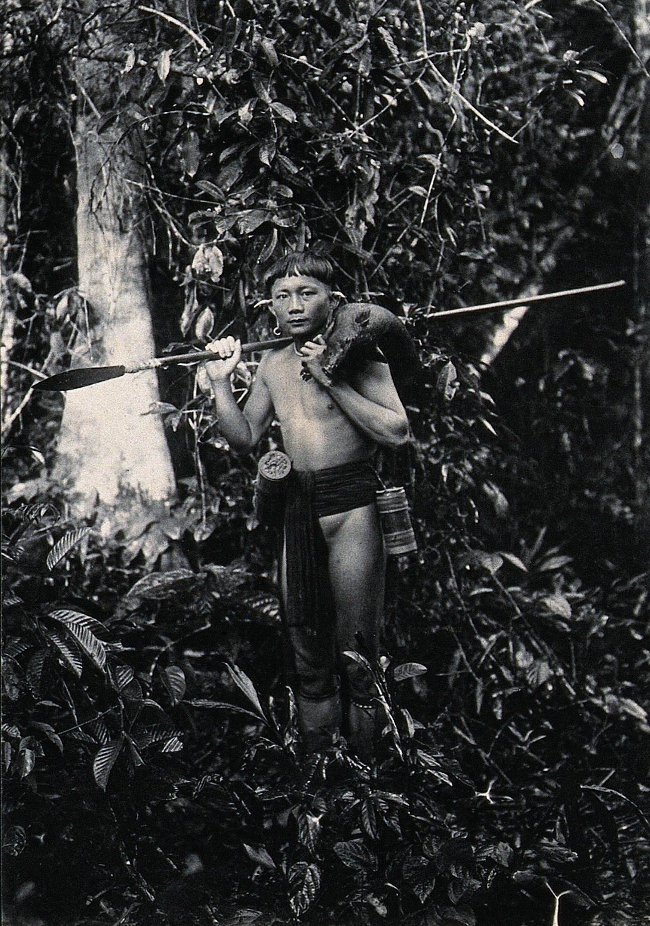 Sarawak: a native Kenyah hunter with blowpipe and dead animal. Photograph. Iconographic Collections Keywords: Tribe; Population Groups; Borneo; Tribal; Charles Hose; Anthropology; Malaysia; Ethnography